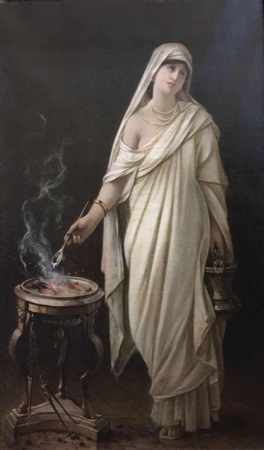 Keeper of the Flame by Louis Hector Leroux